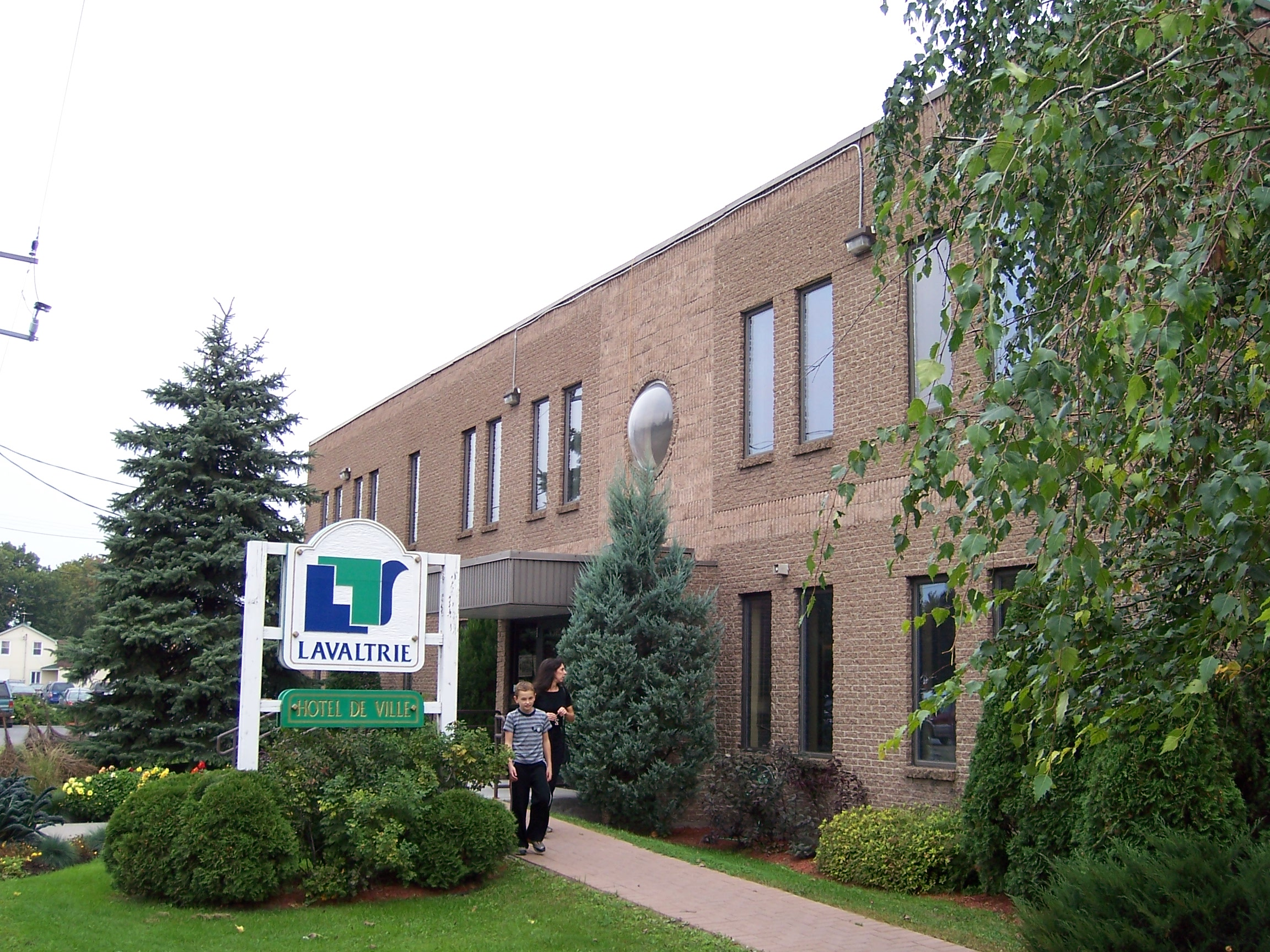 Picture of town hall of Lavaltrie, 1370 rue Notre-Dame, Lavaltrie (Québec), Canada J5T 1M5